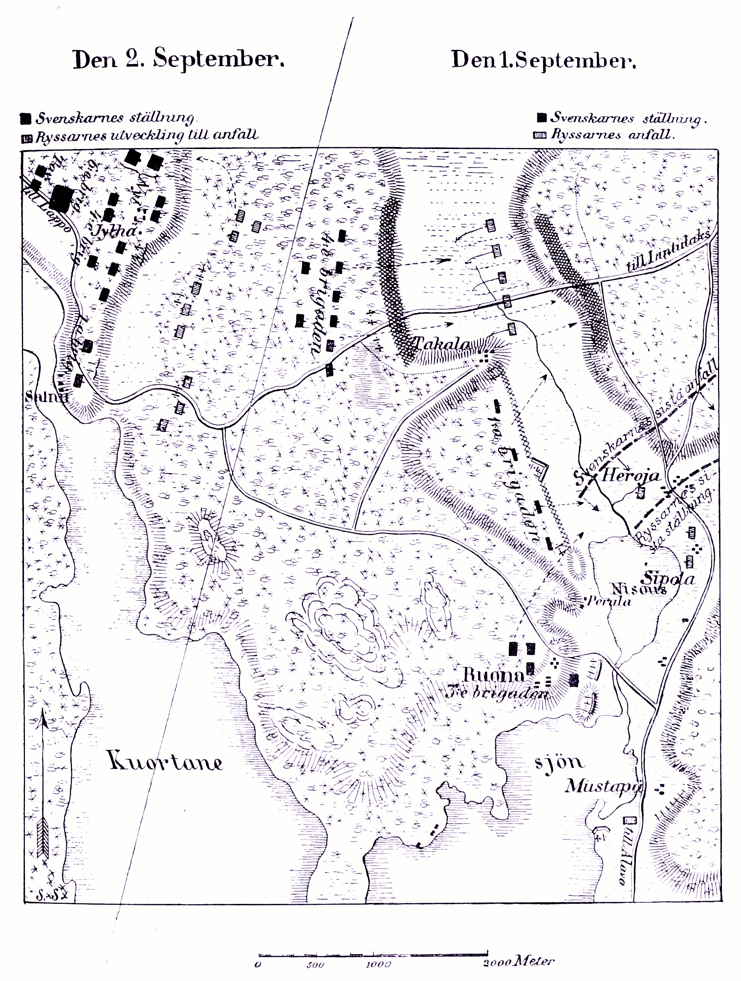 Map of the battles of Ruona and Salmi in the Finnish War